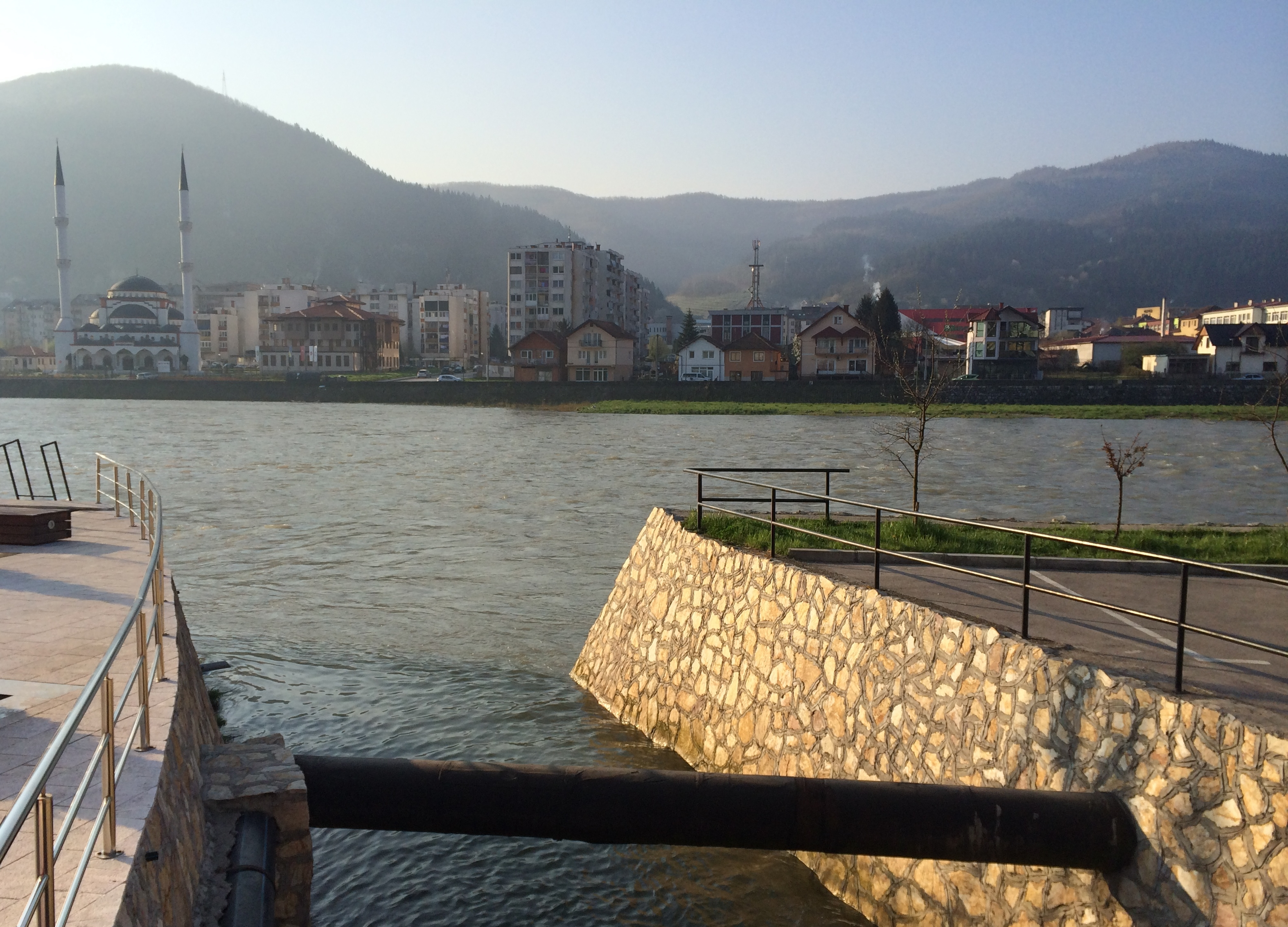 Image of the river Drina early morning, with the Emperor Mosque of Gorazde city, Bosnia-Hercegovina. Image taken from location of the Turk-Bosnian Friendship Park.